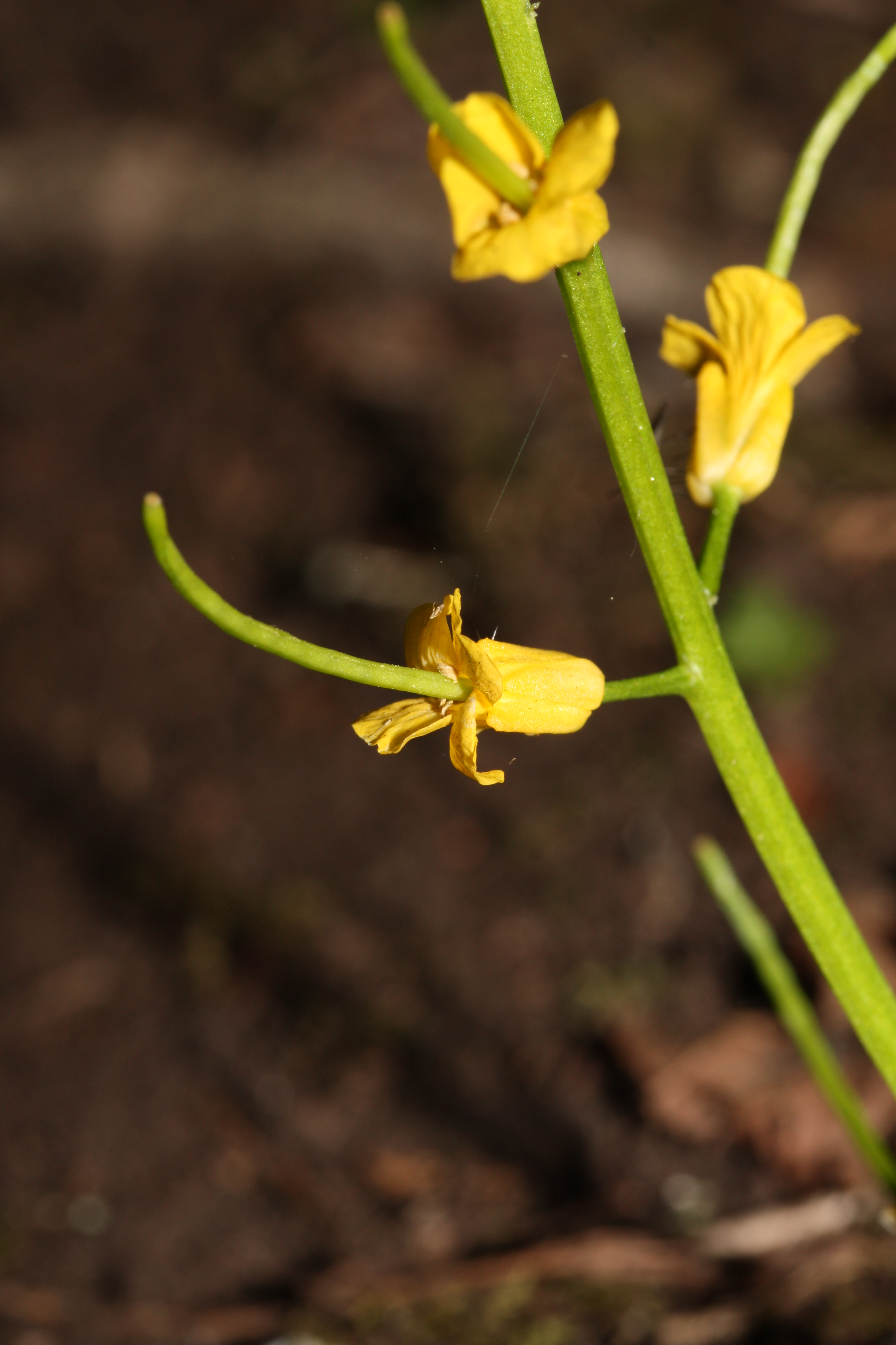 American Yellow-rocket, American Wintercress